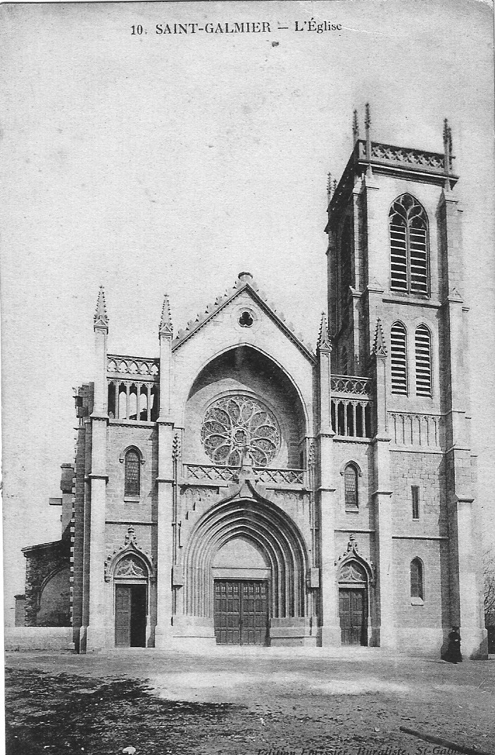 Saint-Galmier (Loire) - L' église